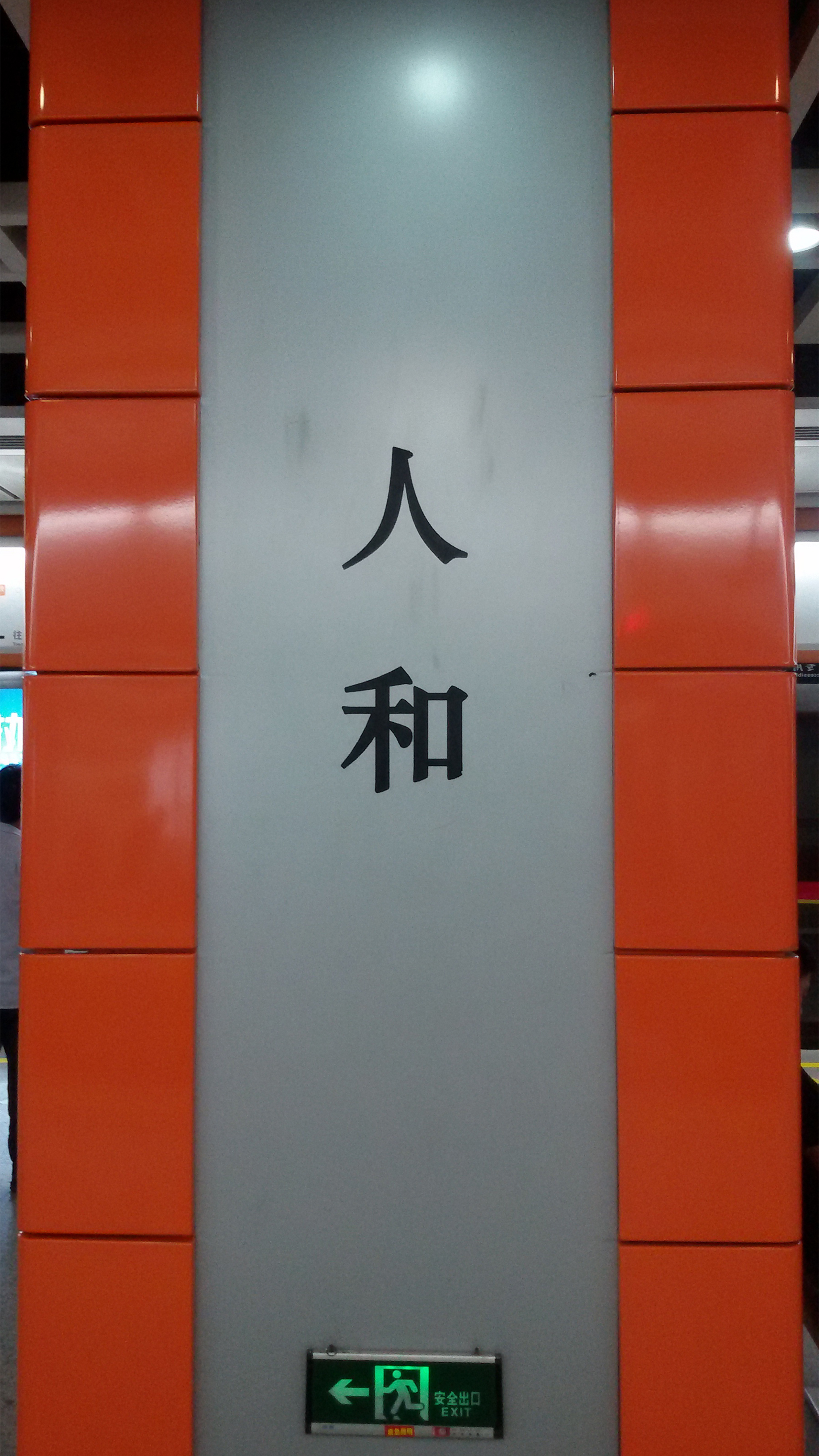 WORD on PILLAR for Renhe Station, Guangzhou Metro.